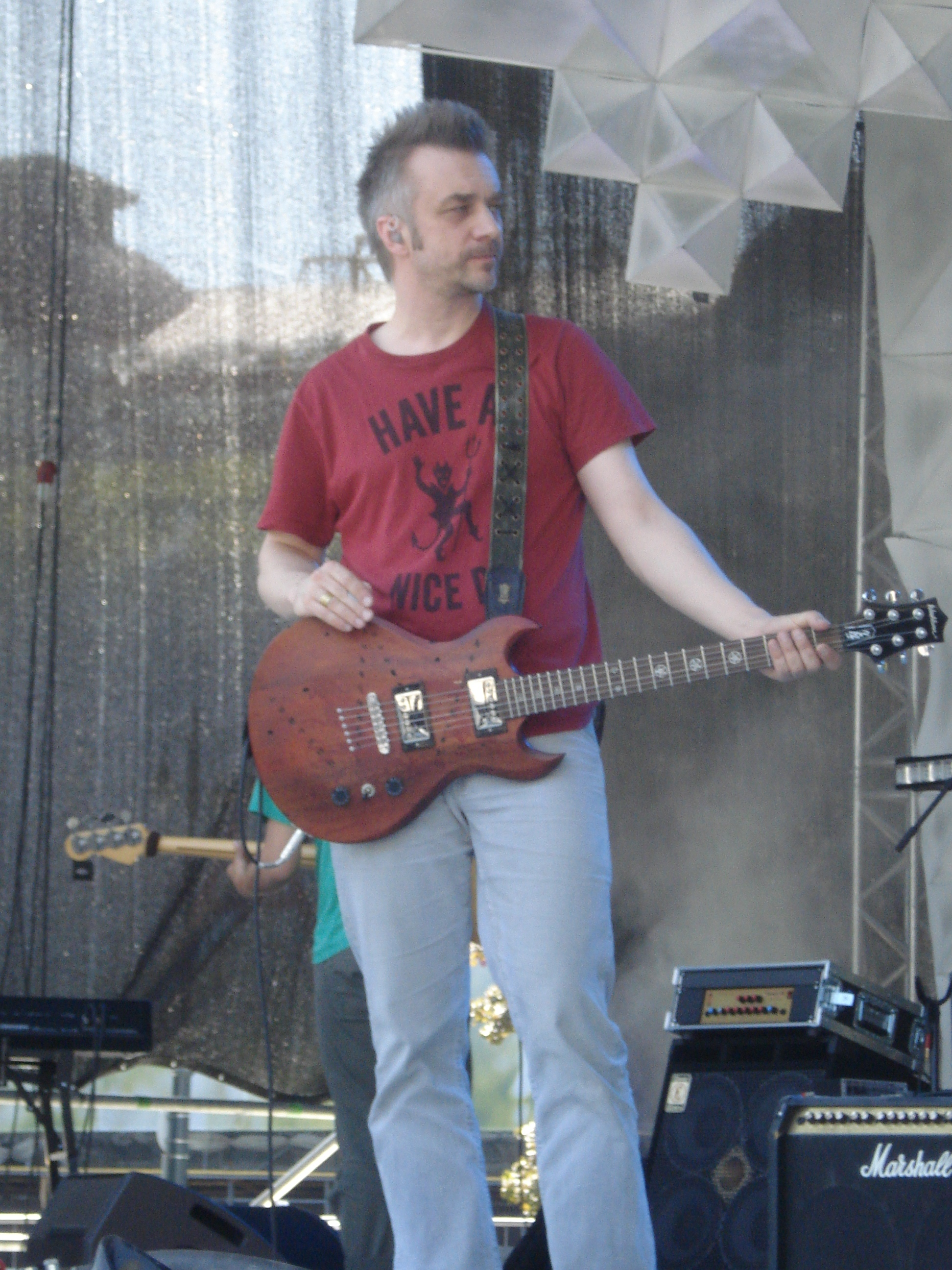 Andrius Mamontovas. Repetion before show at the Cathedral Square 2008 06 06